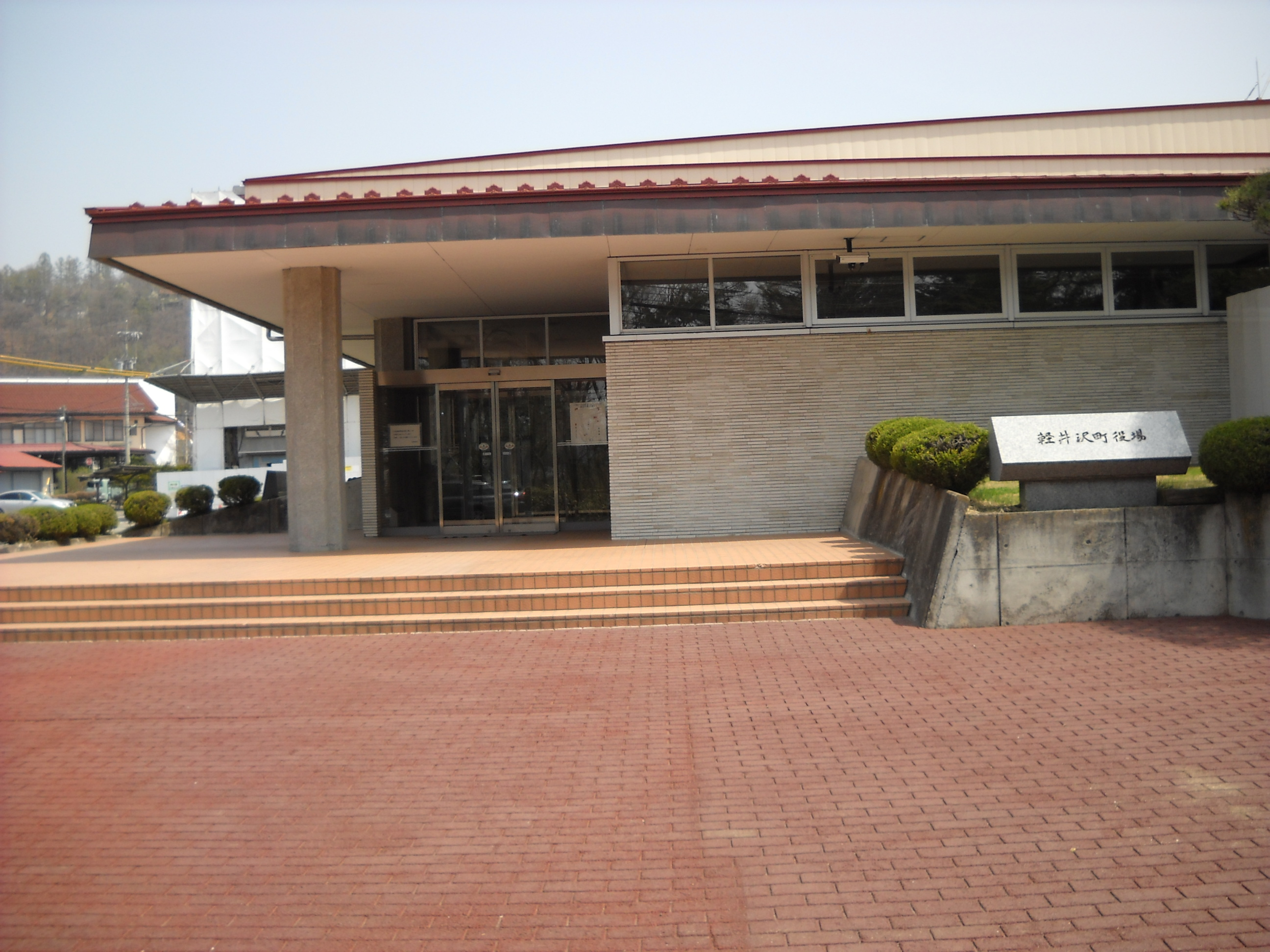 Karuizawa town office, Nagano, Japan